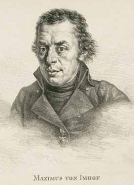 The augusitnian monk and scientist Maximus von Imhof (1758-1817)